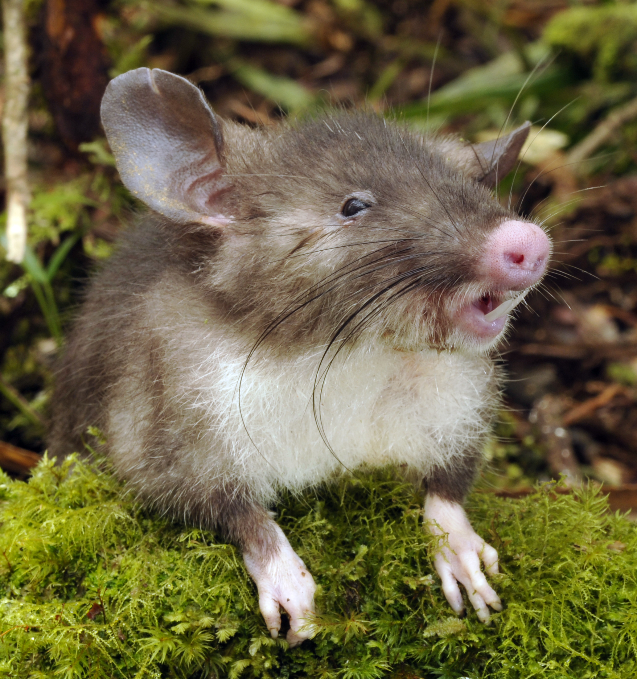 Hyorhinomys stuempkei, NMV C37196, the Sulawesi snouter.